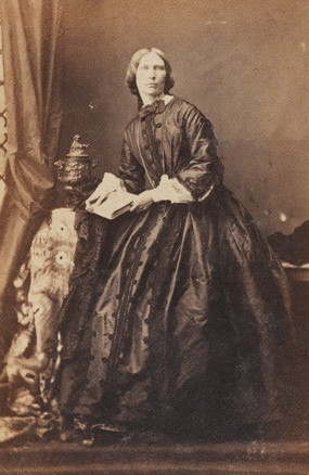 Barbarina Charlotte (née Sullivan), Lady Grey (1823-1902), Wife of Sir Frederick William Grey; daughter of Frederick Sullivan